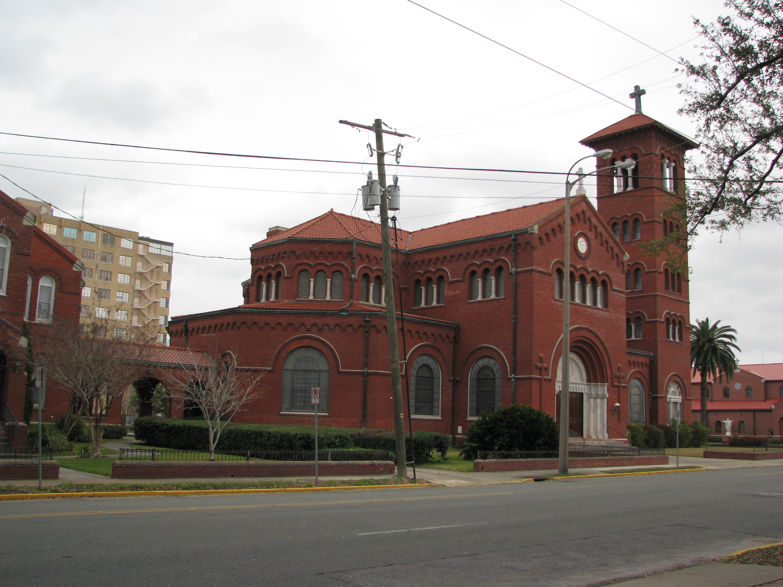 Church, Lake Charles, Louisiana